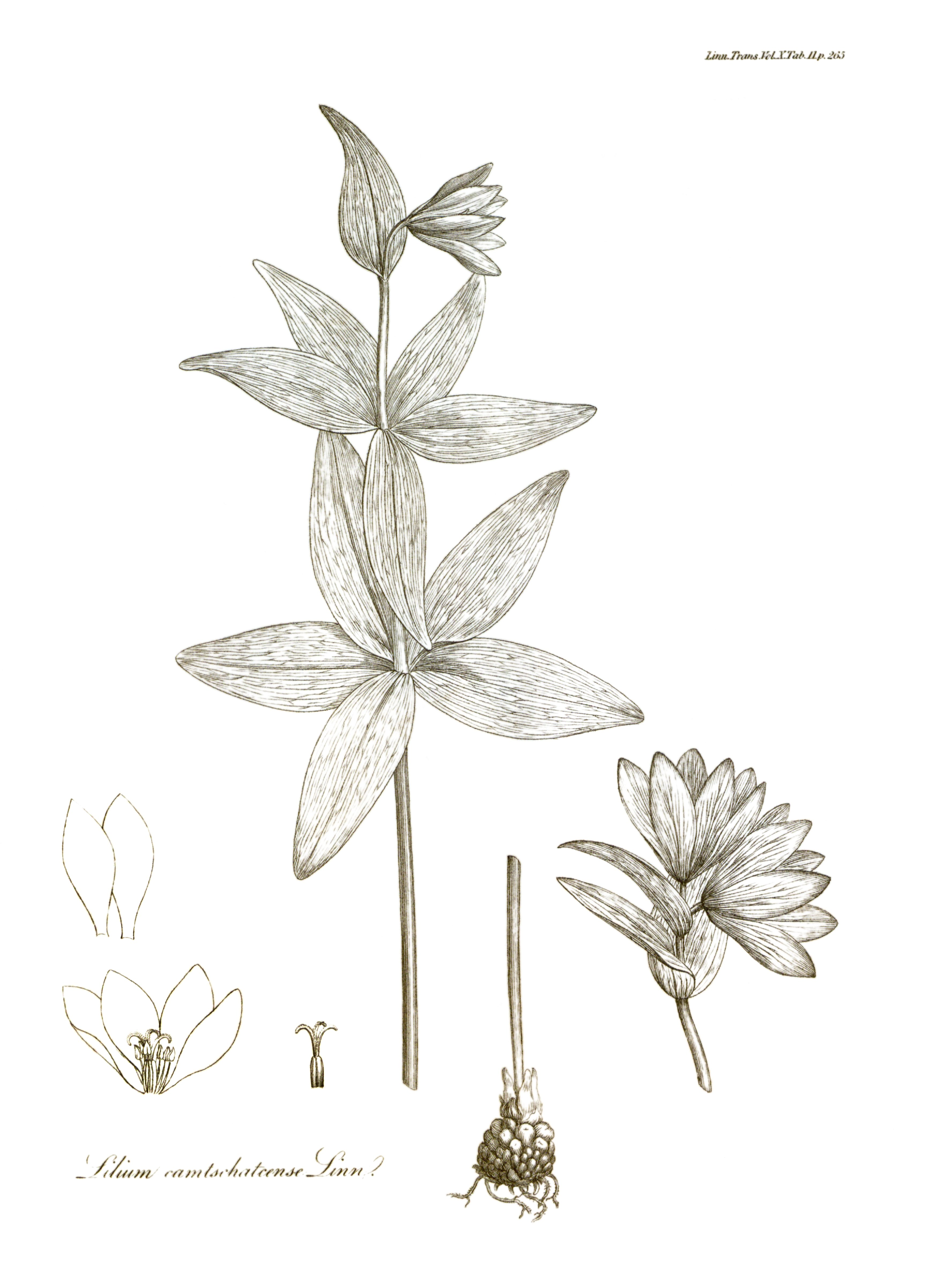 Illustration of Lilium camtschatcense and a page from Volume X of Transactions of the Linnean Society of London, published in 1811.